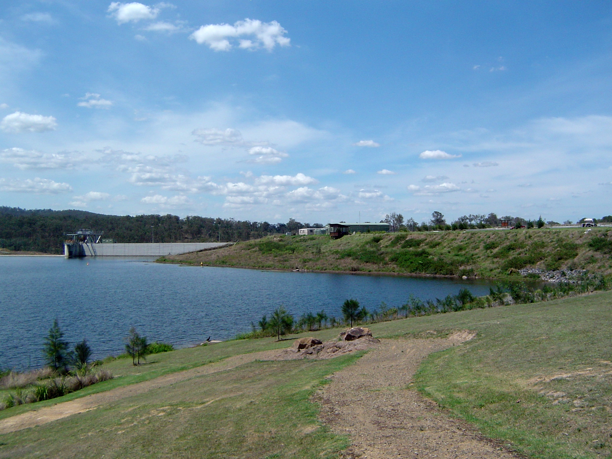 Photo of dam wall from picnic area of Wyaralong Dam near Beaudesert, Queensland, Australia.